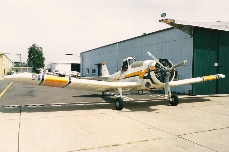 A Weatherly 620B at Bankstown Airport in Sydney, Australia. Image scanned from a 6"x4" photograph of VH-WEI taken by YSSYguy circa March 1998.